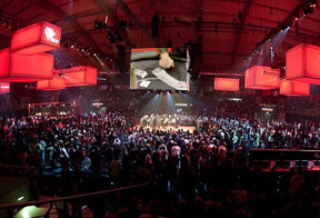 Rich Ferguson performing on stage at the Salzburg Arena in Salzburg, Austria. 10,000 poker fans came out for the poker tournament in which Rich Ferguson put on workshops. Pictured here is Rich Ferguson performing sleight of hand magic.